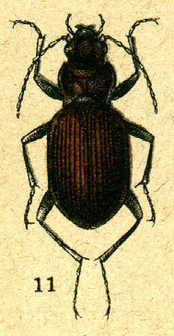 Adult Beetle Illustration from the monograph by Georgiy Jacobson “Beetles Russia and the Western Europe” (1905).